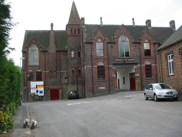 Jackfield Tile Works. The Jackfield Tile Museum is located on the south side of the Ironbridge Gorge and housed in the former works of Craven Dunnill and Company. Jackfield was a thriving centre for the production of ceramics and is believed to have started here in the sixteenth century.